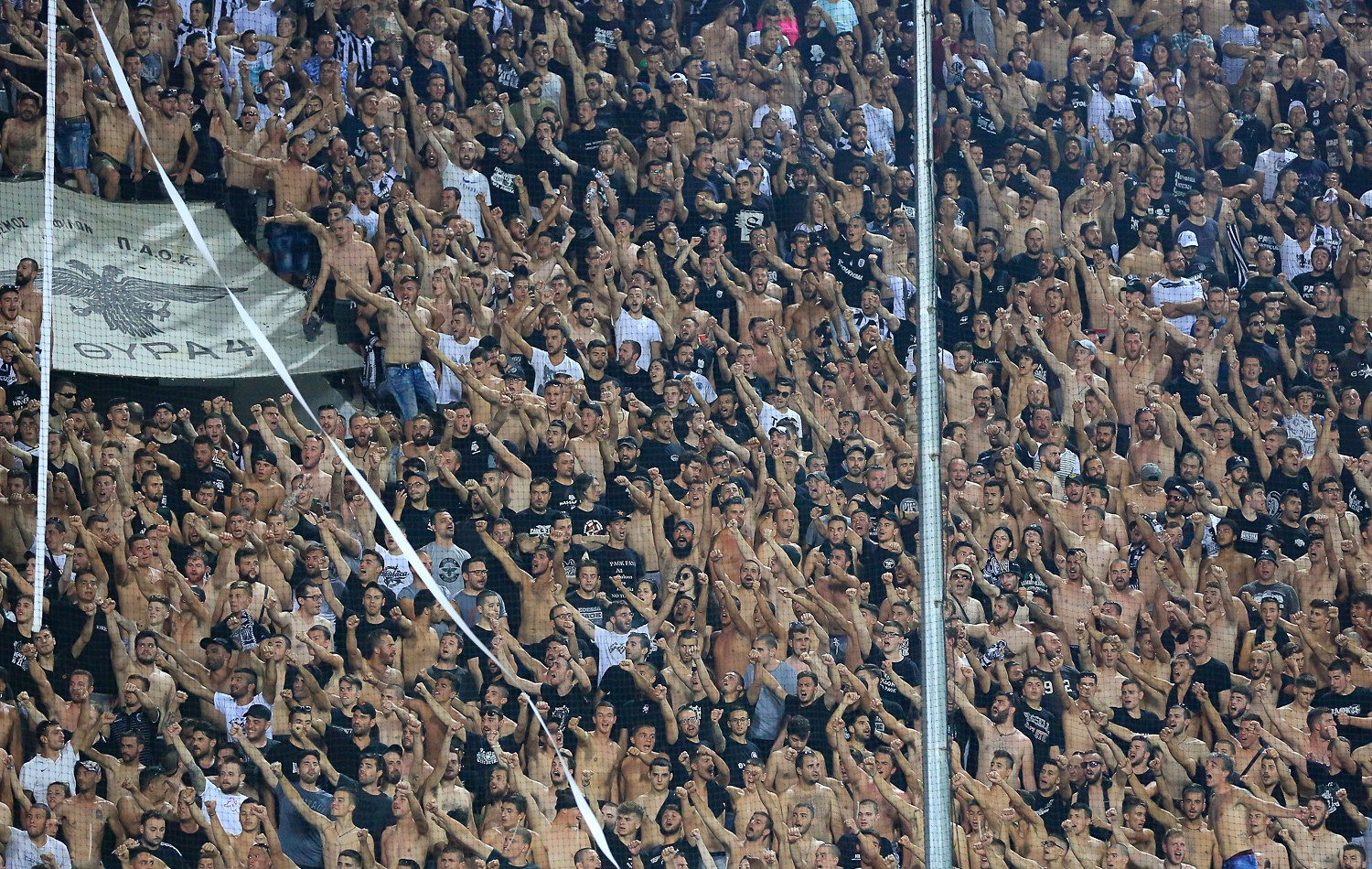 PAOK VS. Spartak Moscow 8 august 2018